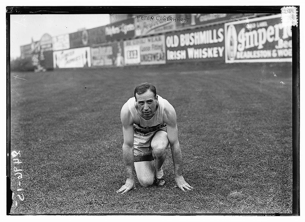 Peter C. Gerhardt (LOC) Bain News Service,, publisher. Peter C. Gerhardt in 1912 [between ca. 1910 and ca. 1915] 1 negative : glass ; 5 x 7 in. or smaller. Notes: Title from unverified data provided by the Bain News Service on the negatives or caption cards. Forms part of: George Grantham Bain Collection (Library of Congress). Format: Glass negatives. Repository: Library of Congress, Prints and Photographs Division, Washington, D.C. 20540 USA, General information about the Bain Collection is available at Persistent URL: Call Number: LC-B2- 2496-15a